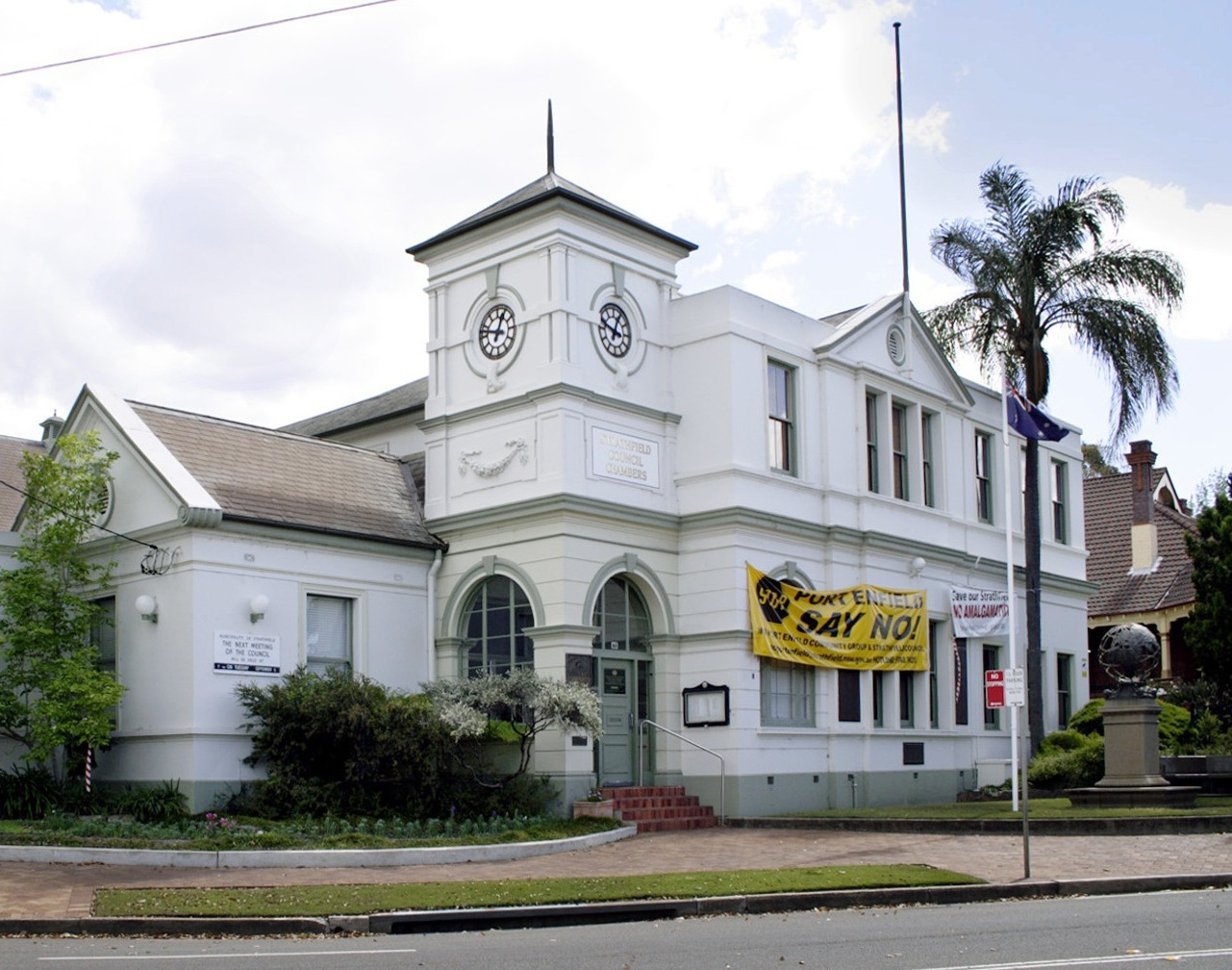 Strathfield Municipal Council Chambers in Sydney, Australia. -- Jasabella 13:01, 1 October 2005 (UTC)